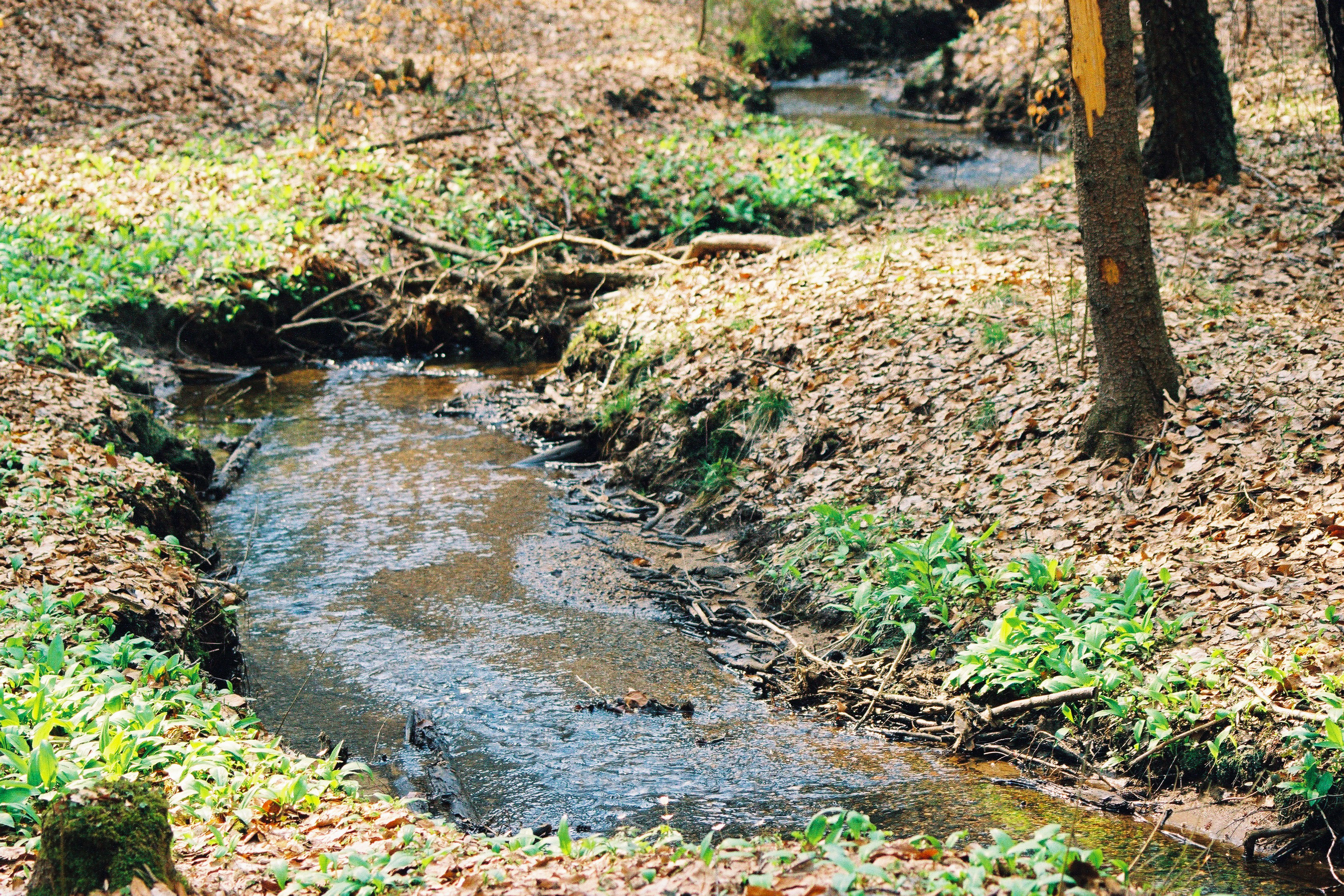 Zumpy - village in Gmina Boronów Author: Przykuta 05:06, 27 April 2006 (UTC) Date: April 2006